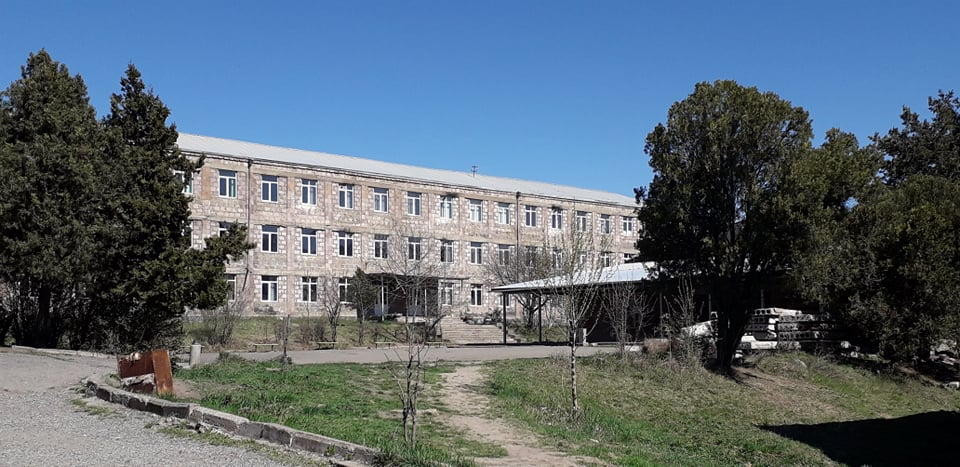 This is Koghb School №2, it was founded in 1972.